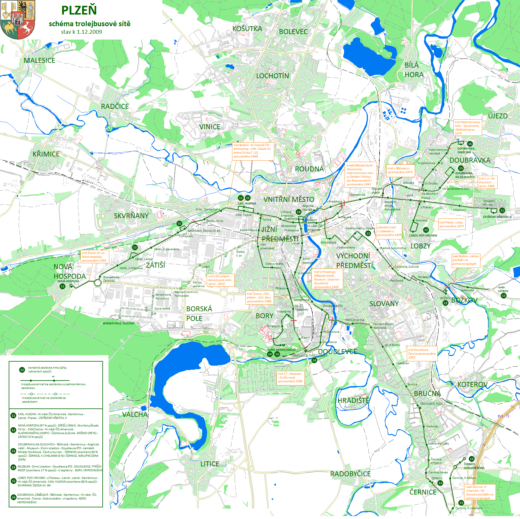 Plan of trolleybuses lines in Pilsen.